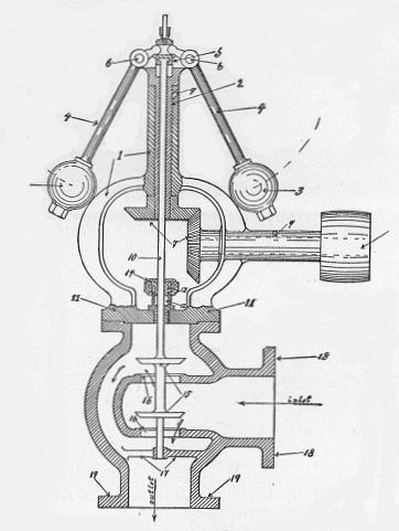 Centrifugal governor and balanced steam valve (New Catechism of the Steam Engine, 1904).jpg